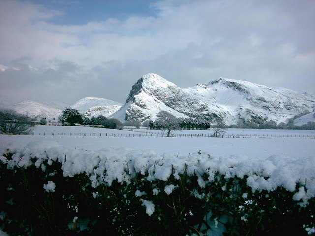 Craig yr Aderyn in snow.